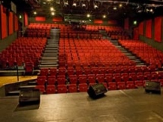 362 seated auditorium named after Edmonton's most famous son, Sir Bruce Forsyth.